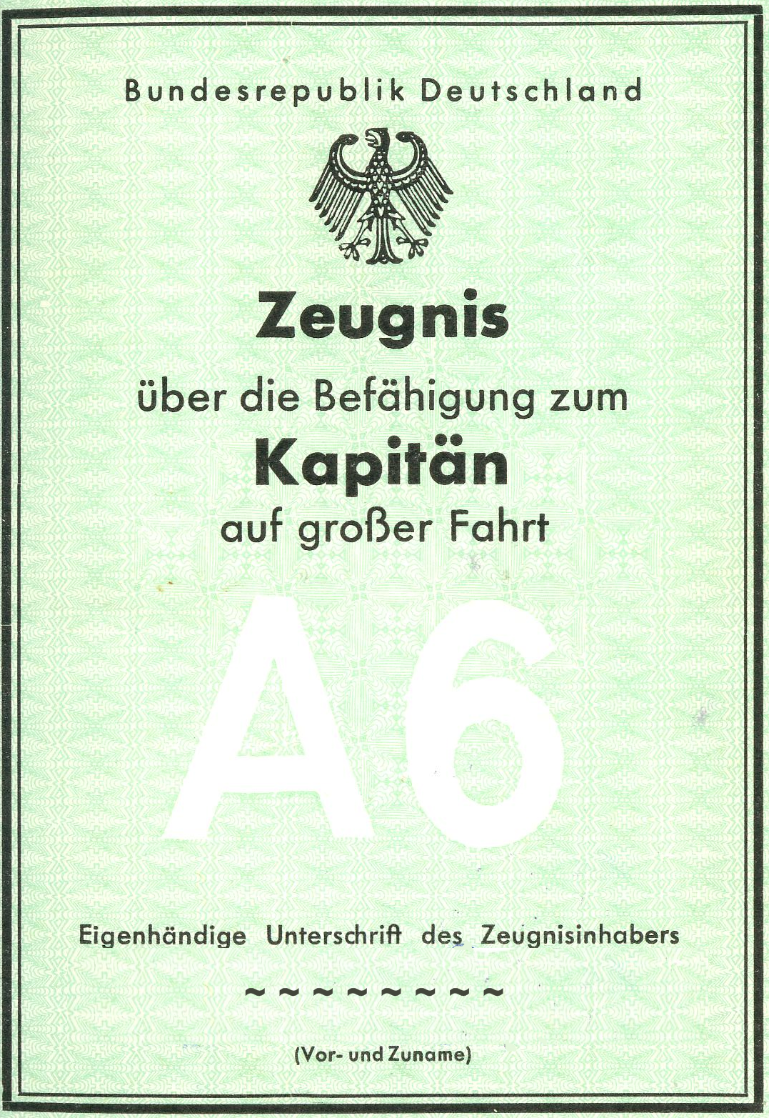 German merchantmarine captains licence A6/AG - 1965